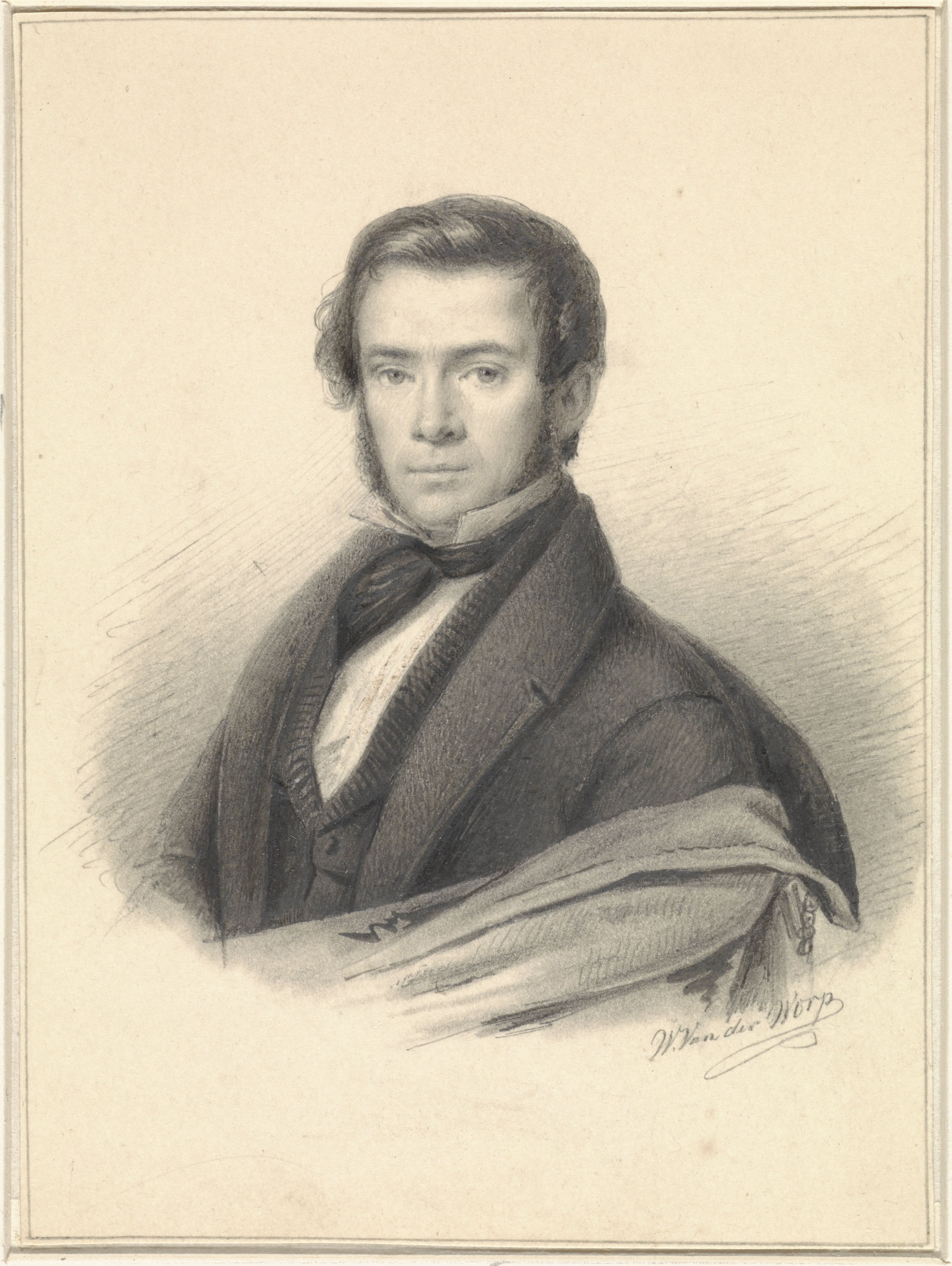 Portrait of George Gillis Haanen, Gilles, by Willem van der Worp. A scan provided by the Rijksmuseum. Date is estimated.